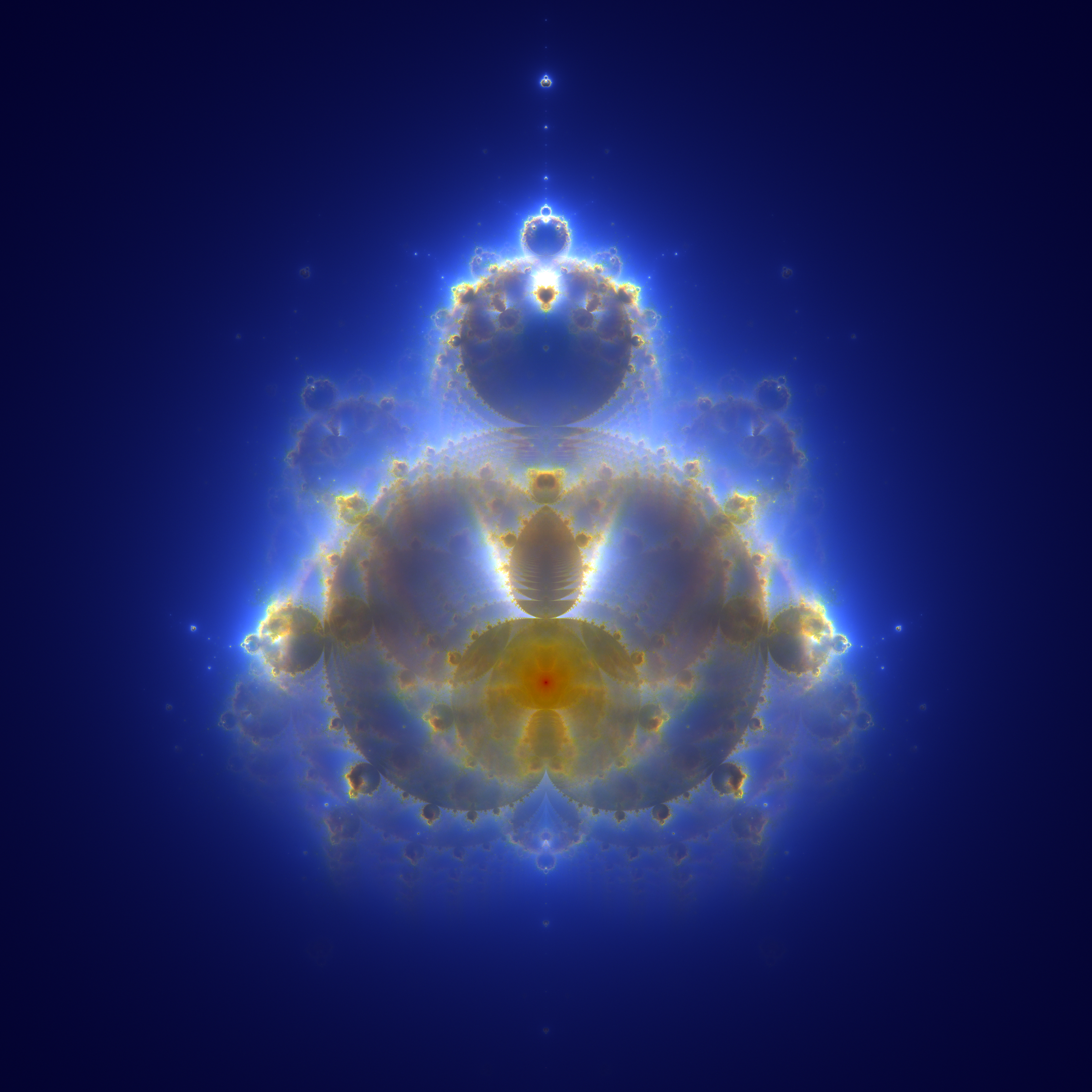 A 4K nebulabrot image where the red, green and blue layers were iterated 5000, 500 and 50 times respectively.